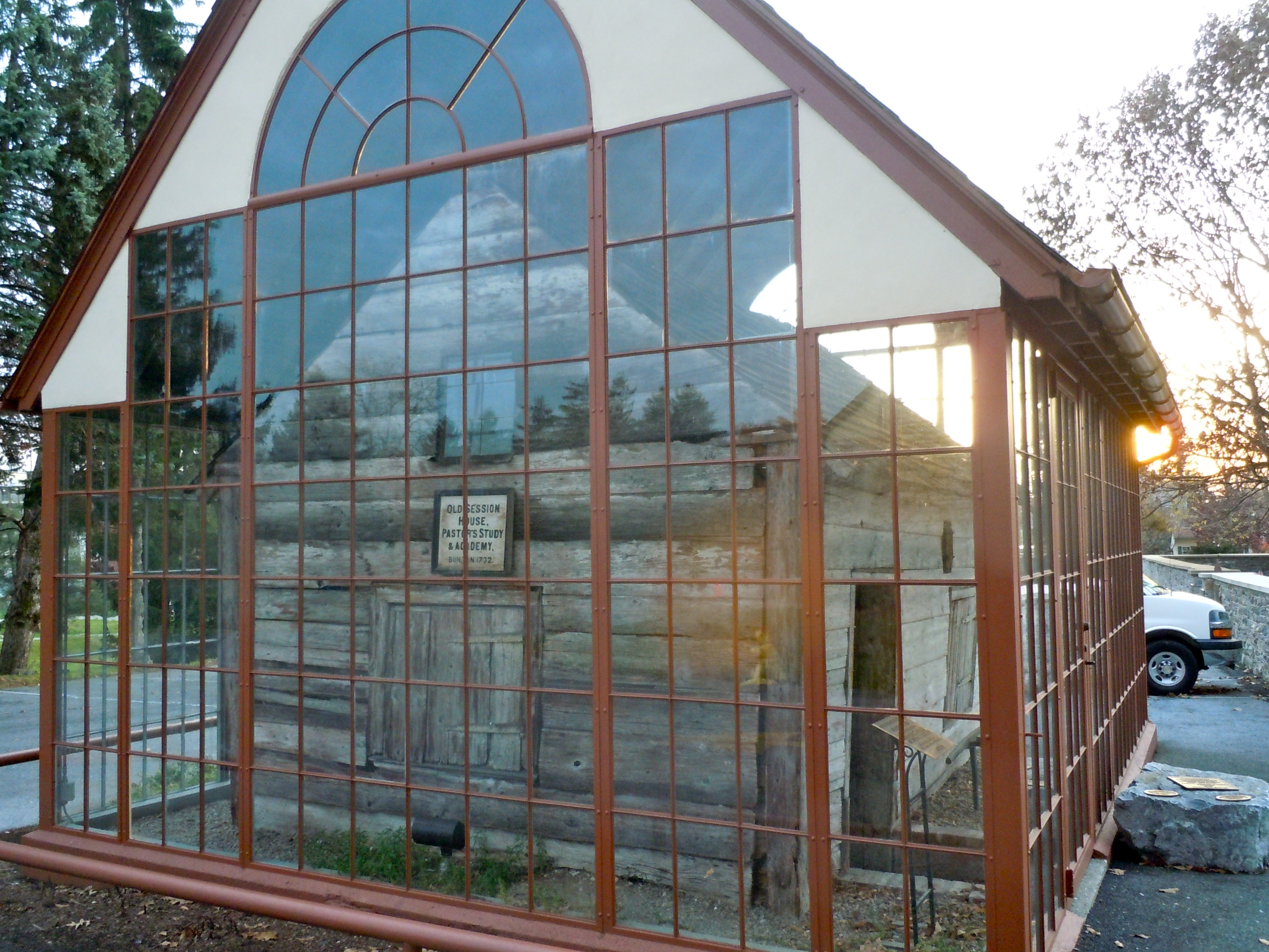 Derry Session House and Enclosure on the NRHP since November 21, 2006. At 248 East Derry Road, Derry Township, Dauphin County, Pennsylvania. This is a 1740s Presbyterian Church enclosed in a 1927 (renovated 1999) glass building, built originally by Milton S. Hershey. Next to High Point, Hershey's home. Note that both the church and the glass enclosure are on the NRHP.